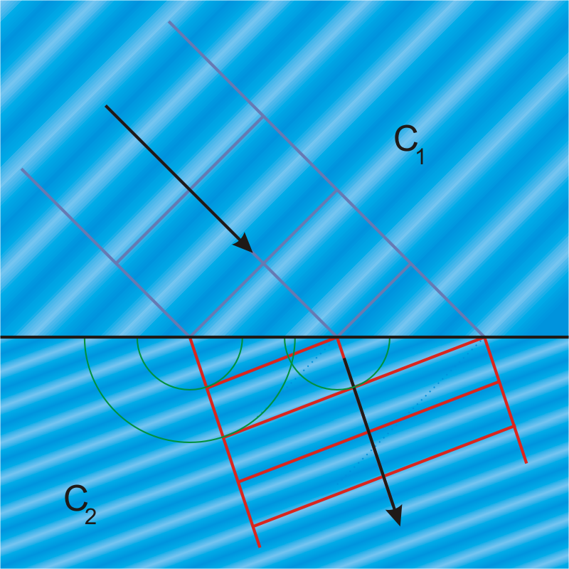 Wave refraction, in the manner of Huygens